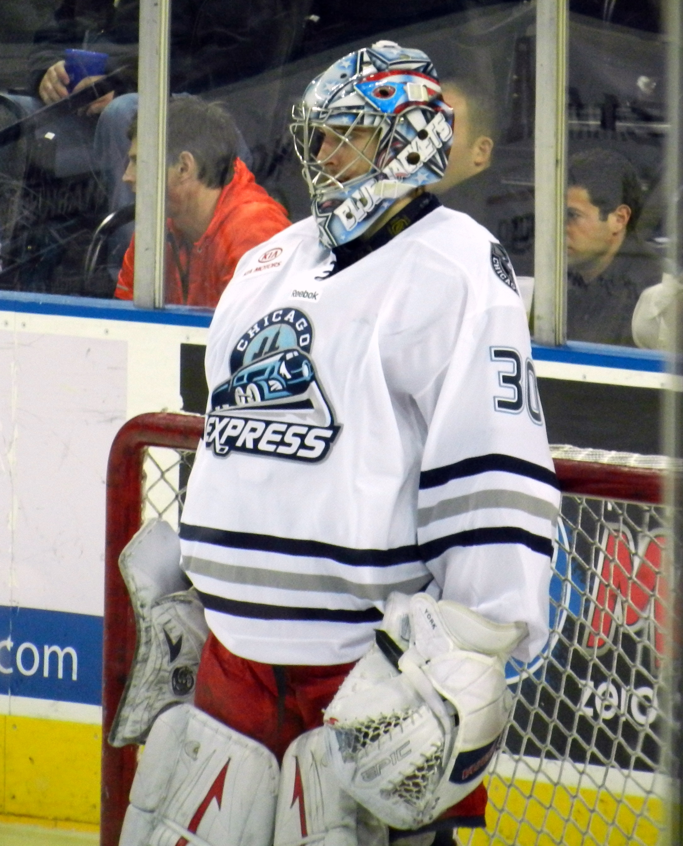 Allen York playing for the ECHL's Chicago Express during the 2011-12 season.